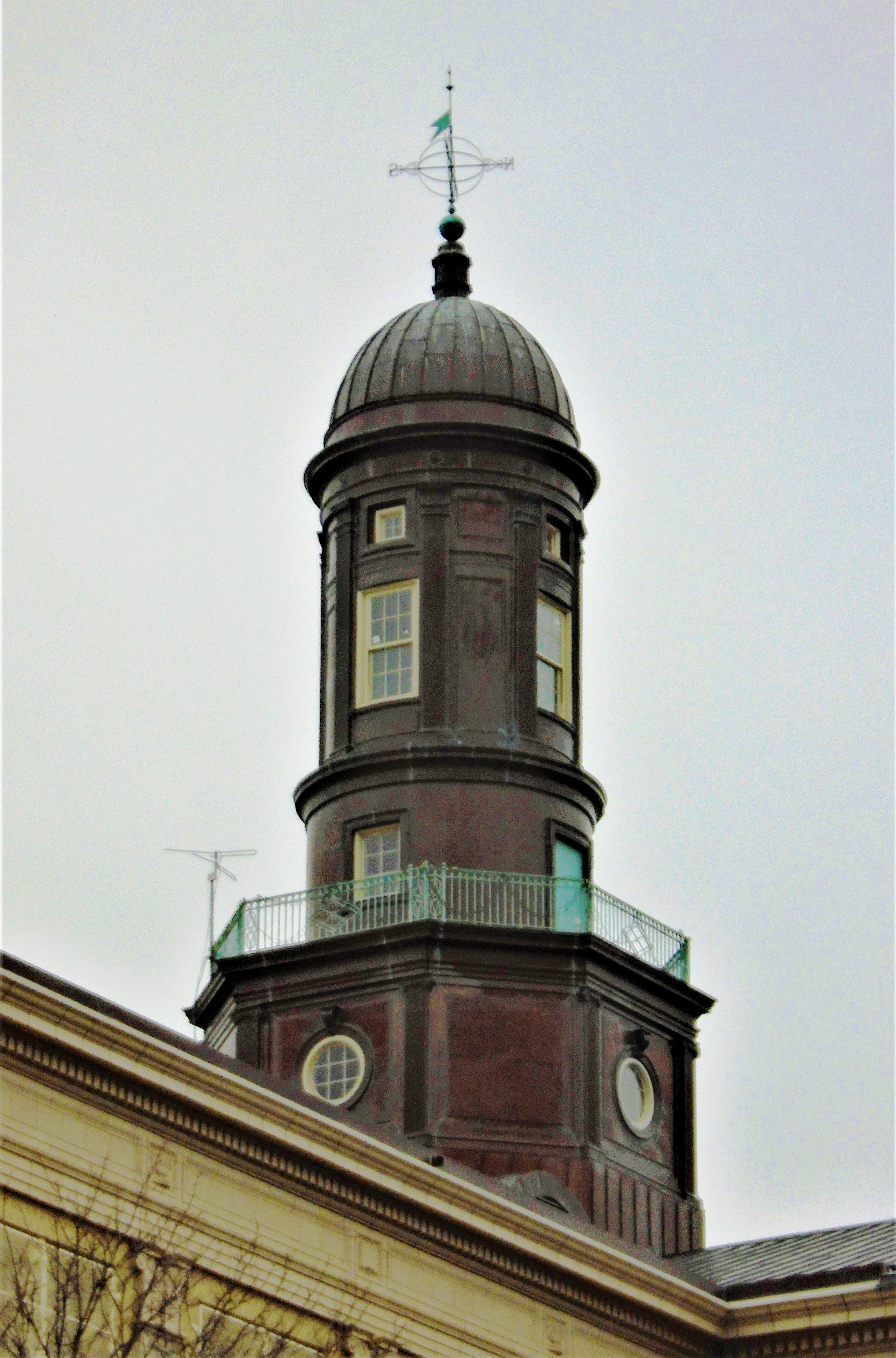 The Theodore Roosevelt Educational Campus, located at 500 East Fordham Road across from Fordham University in the Fordham neighborhood of the Bronx, New York City, was completed in September 1928 fur use by Theodore Roosevelt High School. The school had been organized in 1918, and operated until 2006. The building is now home to a number of small high schools.